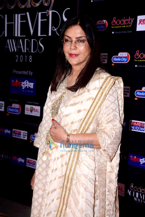 Zeenat Aman at the Society Achievers Awards 2018